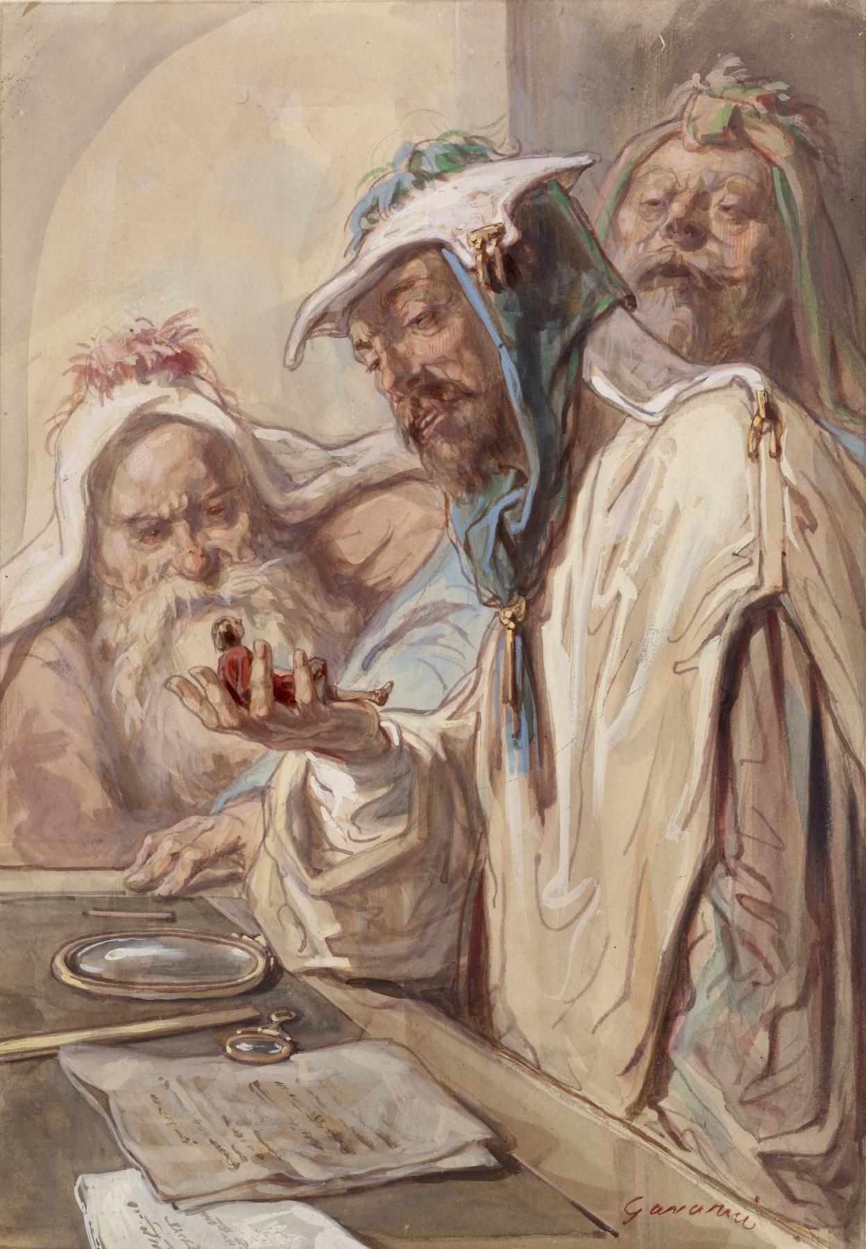 The best-known episode from Swift's "Gulliver's Travels" involves a sojourn amongst the tiny Lilliputians. Subsequently, the hapless Gulliver sails to the island of Brobdingnag, whose inhabitants are as giant as the Lilliputians were tiny. This drawing depicts an episode that Swift uses to satirize the learned conventions of his day. Gavarni accordingly clothes the scholars of the Brobdingnagian court in a parody of the academic robes of his own era. "His Majesty sent for three great scholars. . . . These gentlemen, after they had a while examined my shape with much nicety, were of different opinions concerning me. They all agreed that I could not be produced according to the regular laws of nature, because I was not framed with a capacity of preserving my life, either by swiftness, or climbing of trees, or digging holes in the earth. They observed by my teeth, which they viewed with great exactness, that I was a carnivorous animal; yet most quadrupeds being an overmatch for me, and field mice, with some others, too nimble, they could not imagine how I should be able to support myself, unless I fed upon snails and other insects, which they offered, by many learned arguments, to evince that I could not possibly do. One of these virtuosi seemed to think that I might be an embryo. . . . But this opinion was rejected by the other two, who observed my limbs to be perfect and finished, and that I had lived several years, as it was manifested from my beard, the stumps whereof they plainly discovered through a magnifying-glass. . . ."